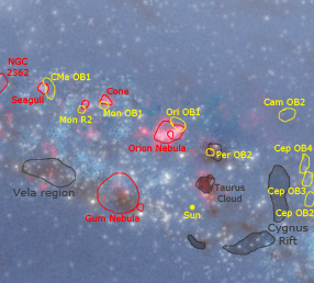 Map of Local Spur (Orion Arm) with Monoceros OB1